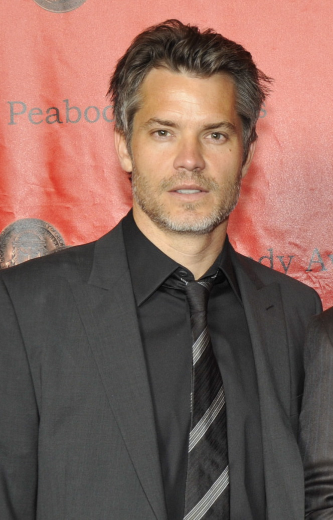 Justified's Timothy Olyphant at the 70th Annual Peabody Awards Luncheon